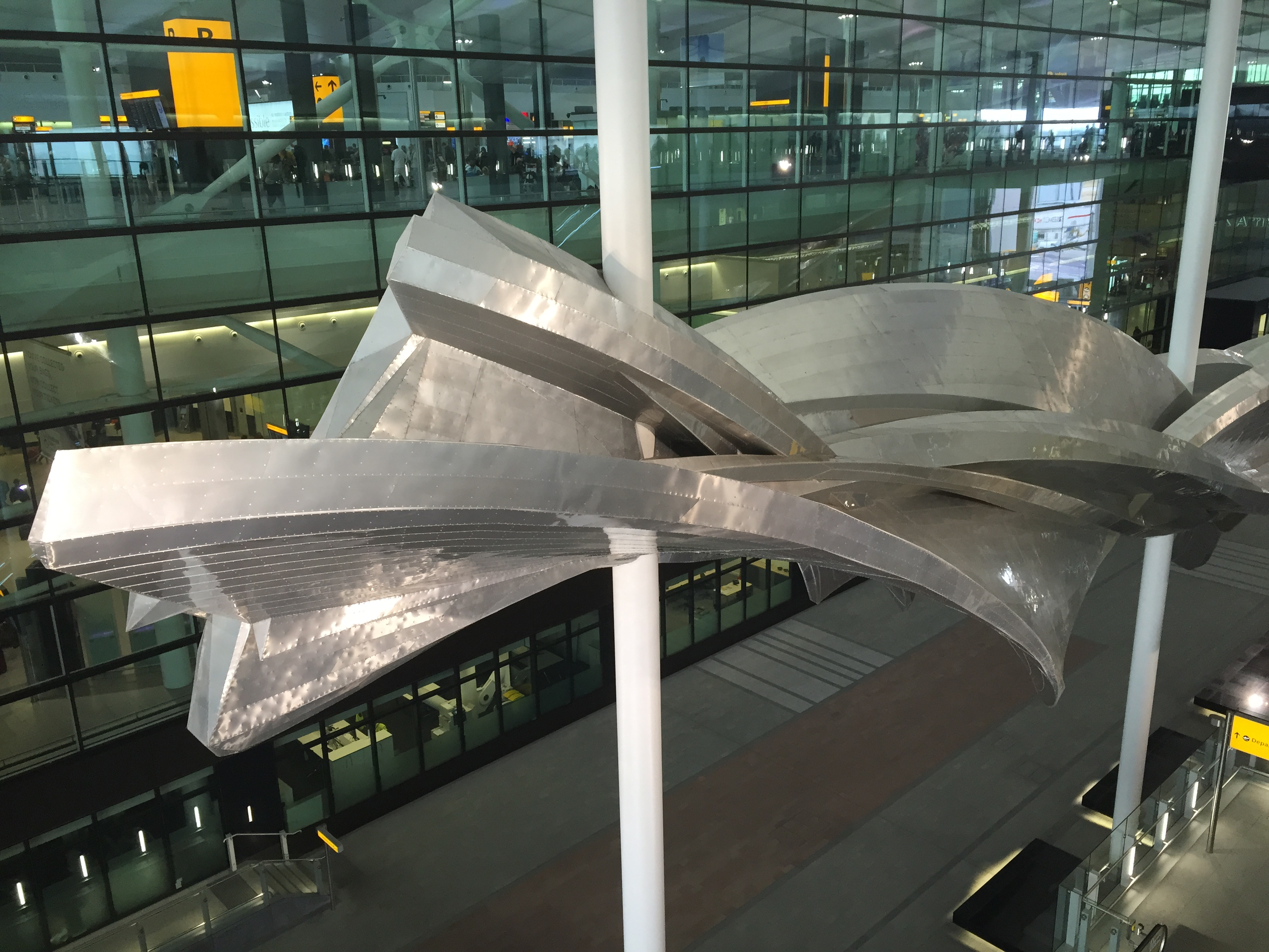 Slipstream (2014) by Richard Wilson, an 80-metre-long aluminium sculpture at London Heathrow Terminal 2 – The Queen's Terminal, London, England, UK.